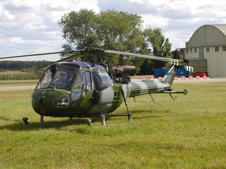 Privately-owned ex-military Westland Scout AH.1 (XV134), photographed at the Heli-Day, Kemble Airfield, England, in August 2003. Taken by Adrian Pingstone and released to the public domain.